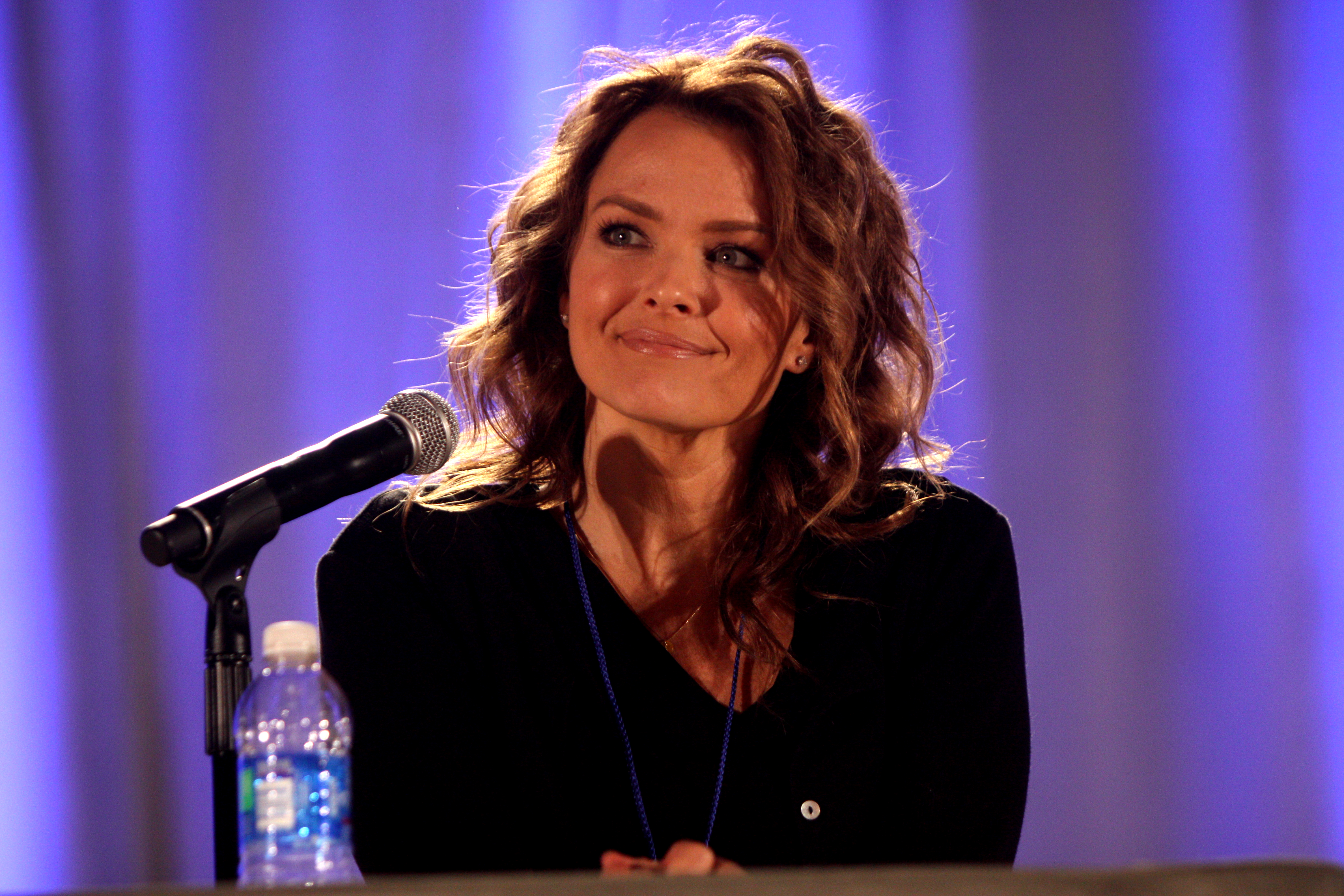 Dina Meyer at the 2012 Phoenix Comicon in Phoenix, Arizona.